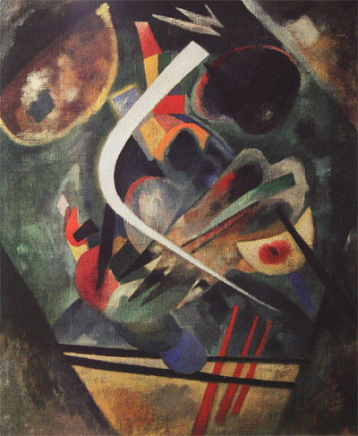 White line, oil on canvas 98х80 sm, Koln, Museum Ludwig